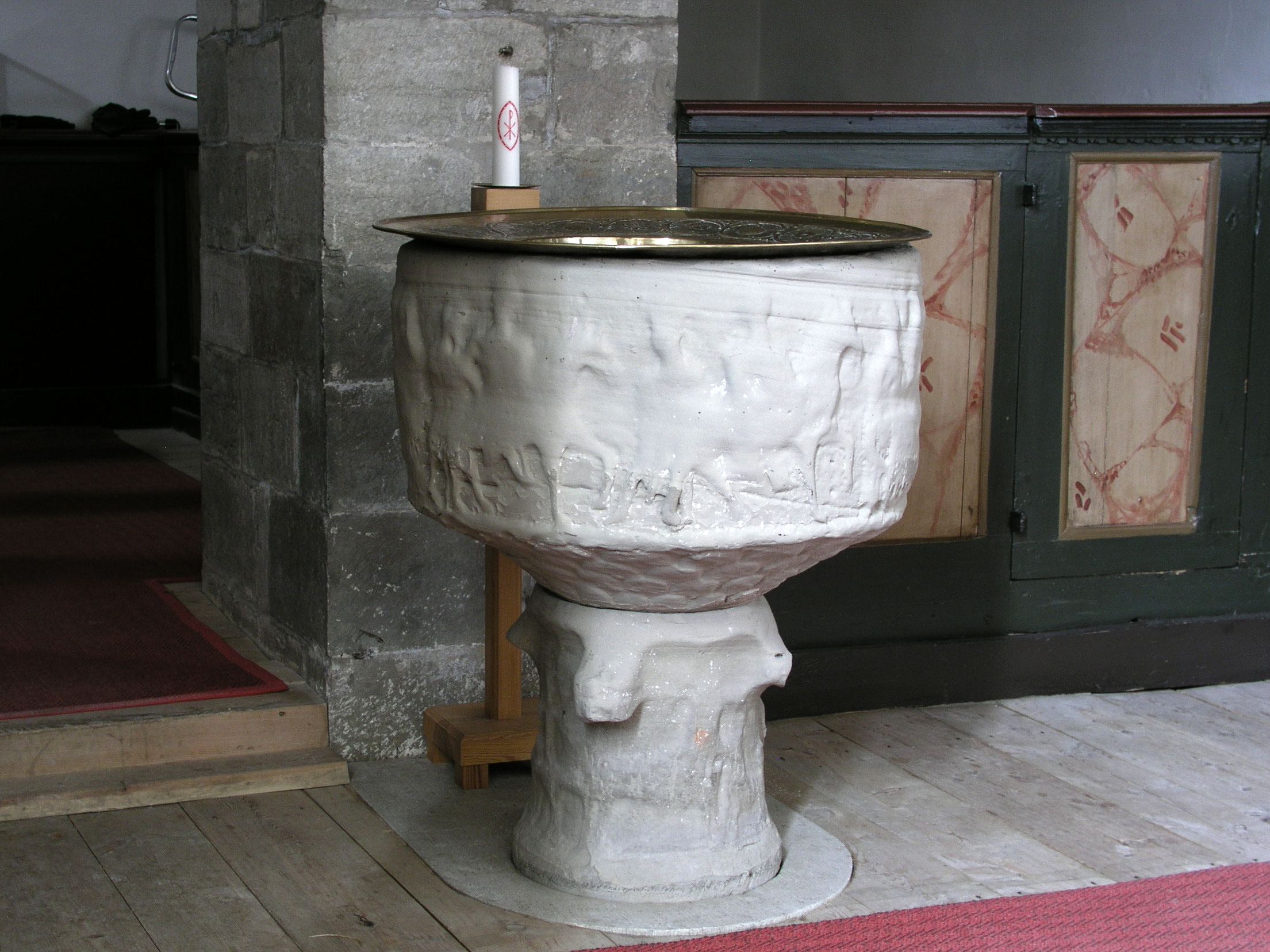 Othem kyrka / Othem church, Gotland, Sweden. Baptismal font.